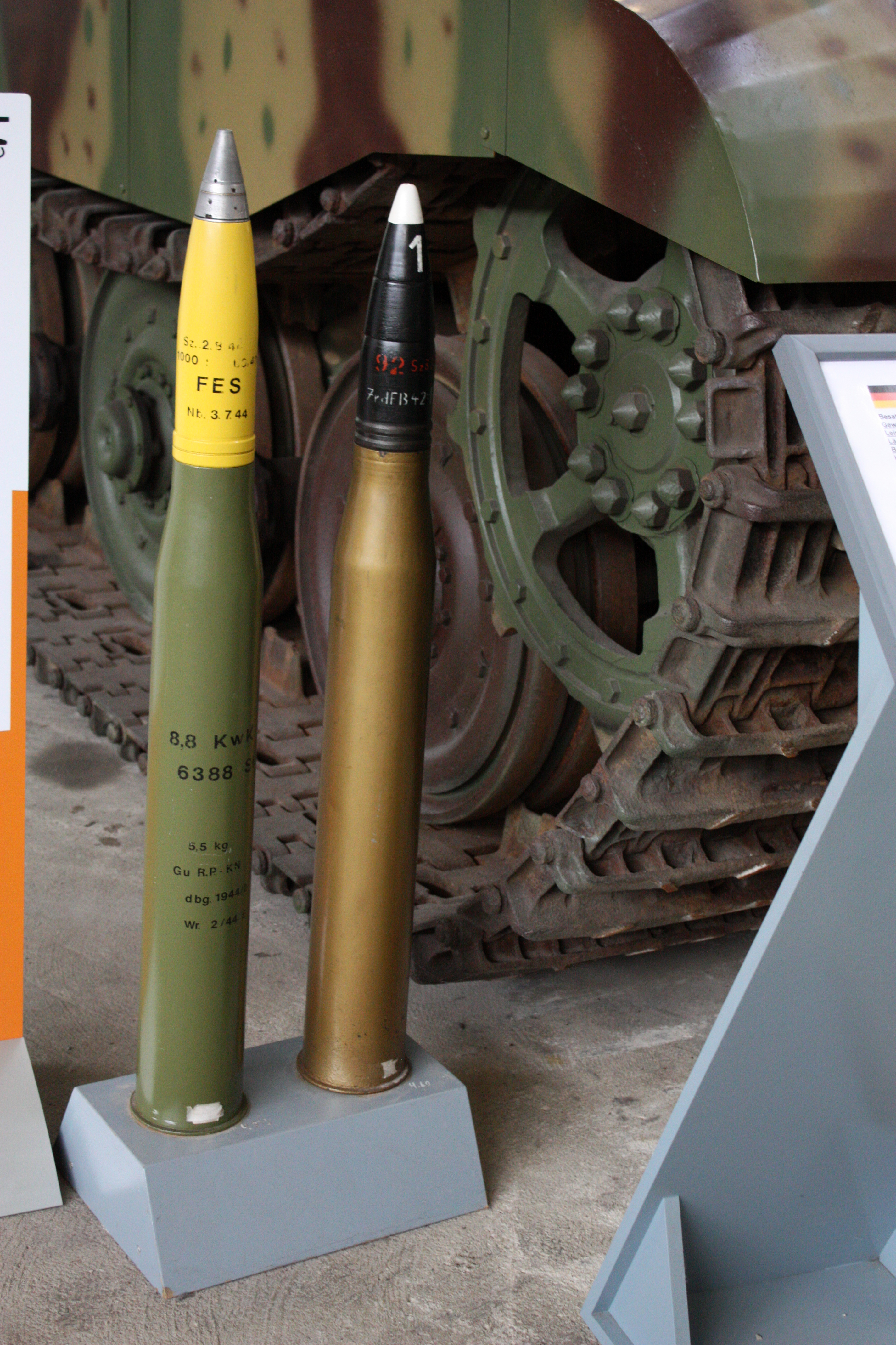 Granade-cartridge of the German Wehrmacht until 1945, here: caliber 88×822 mm R (R = rimed cartridge) to all 8.8-cm-KwK (as well as equal caliber StuK, PaK, and PjK), German Tank Museum (Munster, Lower Saxony, Germany).